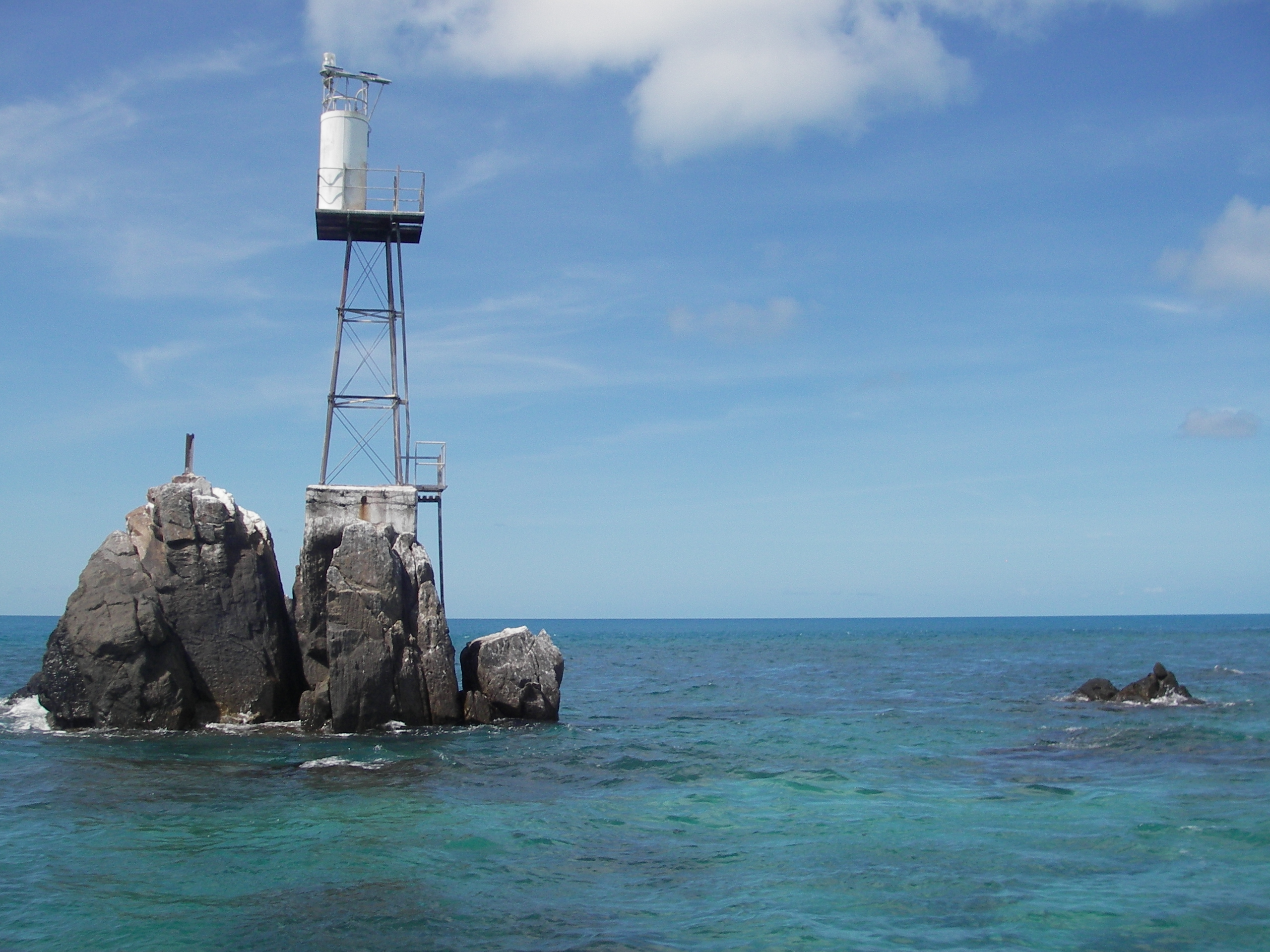 Harvey Rocks Light